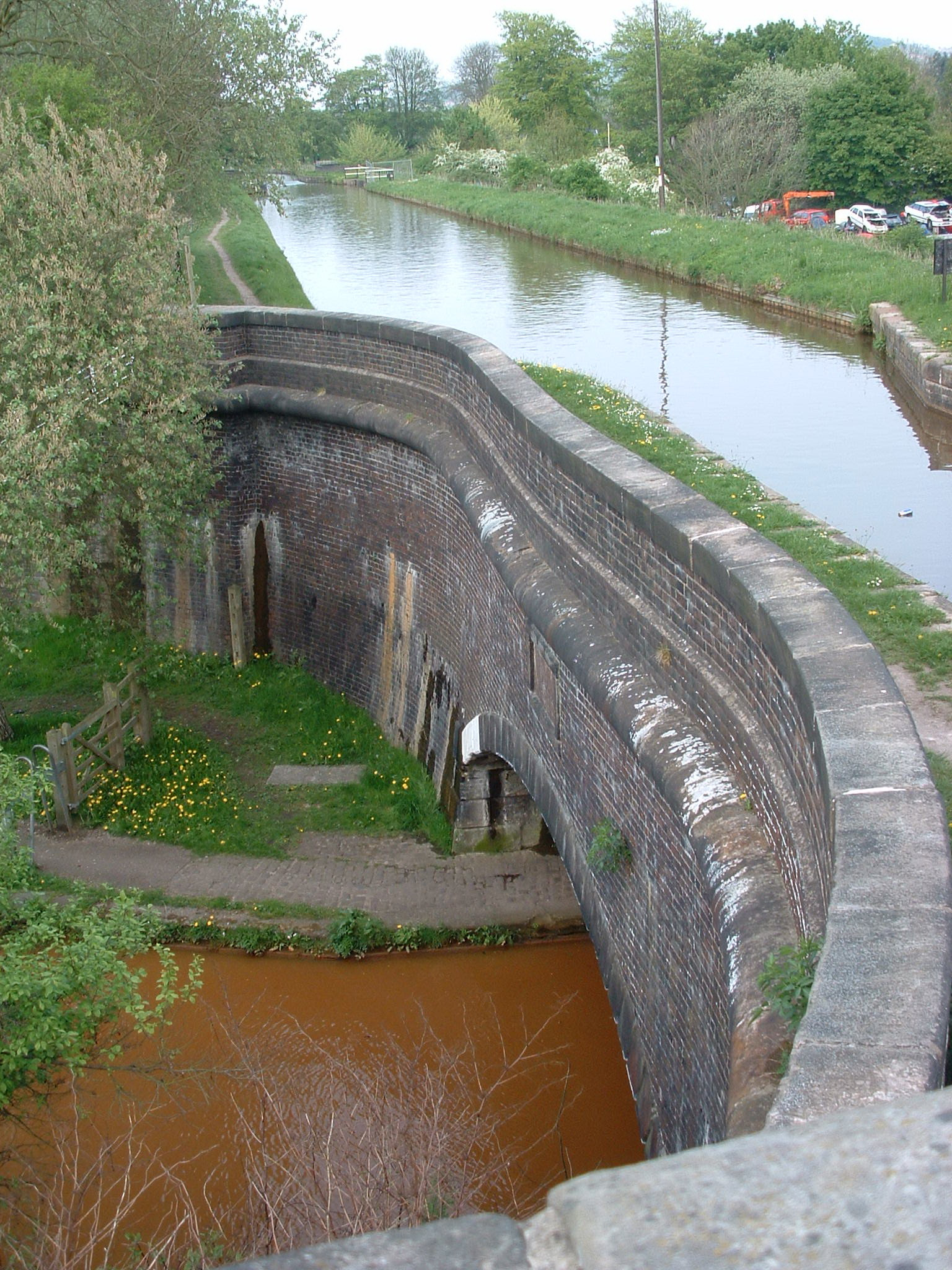 uploaded by photographer, Akke Monasso